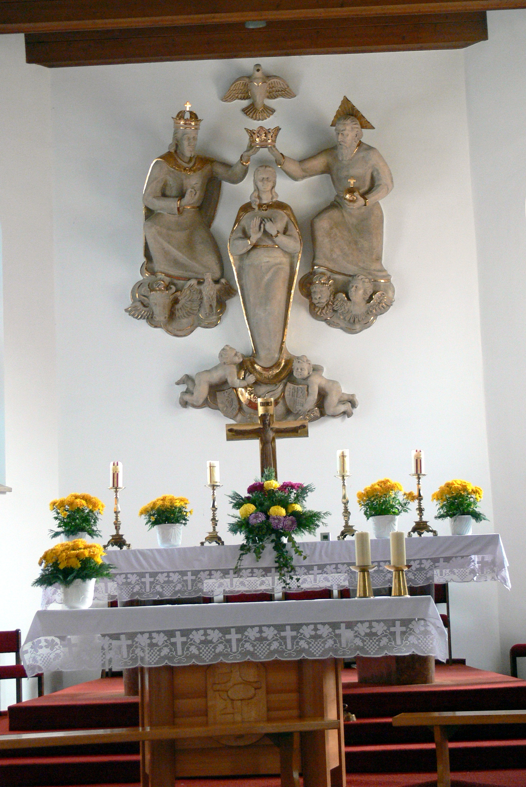 Klaffer am Hochficht ( Upper Austria ). Mary Assumption parish church ( 1955 ) - High altar ( 1950s ) with sculpture of the coronation of Mary.